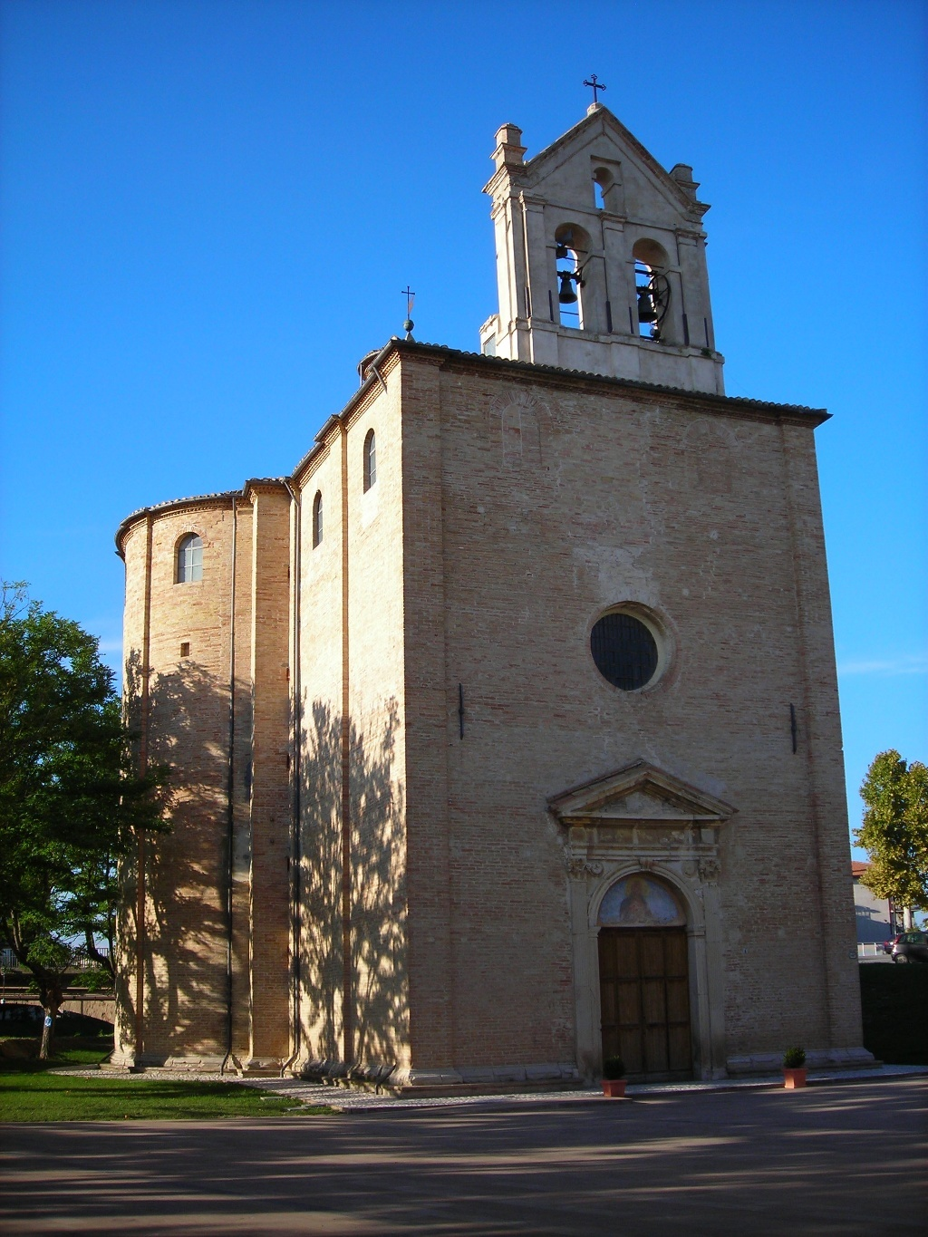 Santuario della Madonna della Bruna, Bruna, Castel Ritaldi, Perugia, Umbria, Italia